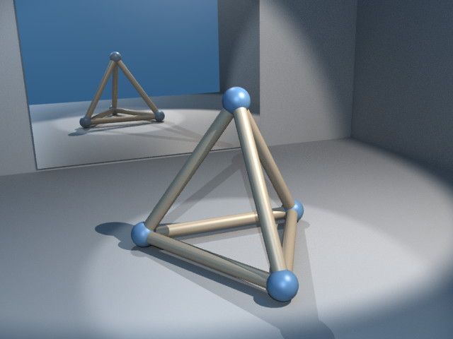 Wireframe of a tetrahedron, software used: Blender and YafRay